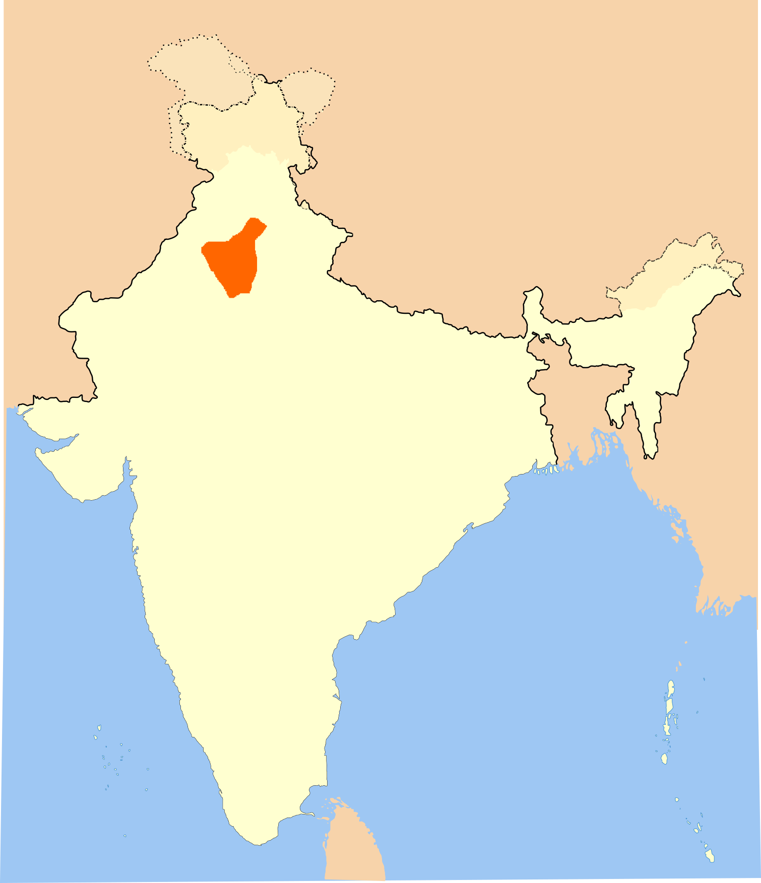 Map of areas where Haryanvi is spoken, from the 2011 census